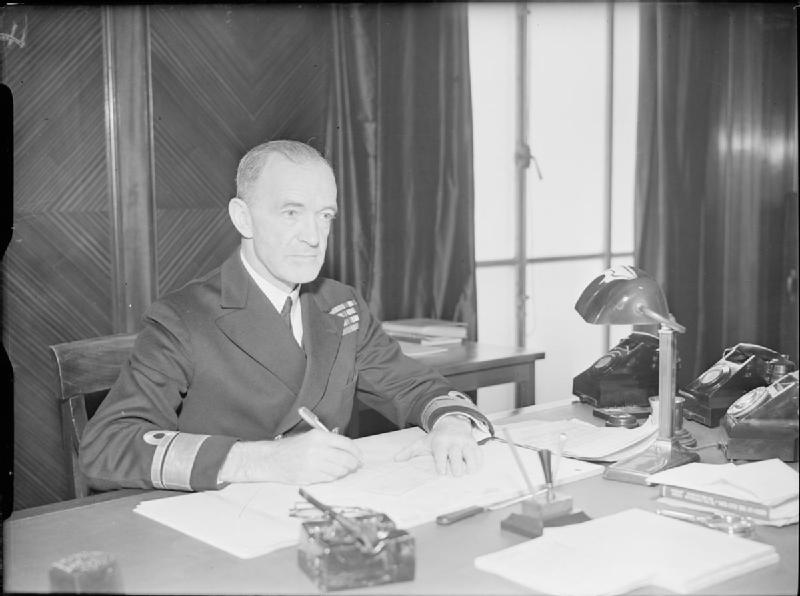 Photograph of Rear Admiral D W Boyd, CBE, DSC, the Fifth Sea Lord and Chief of Naval Air Equipment, at his desk at Darland House.